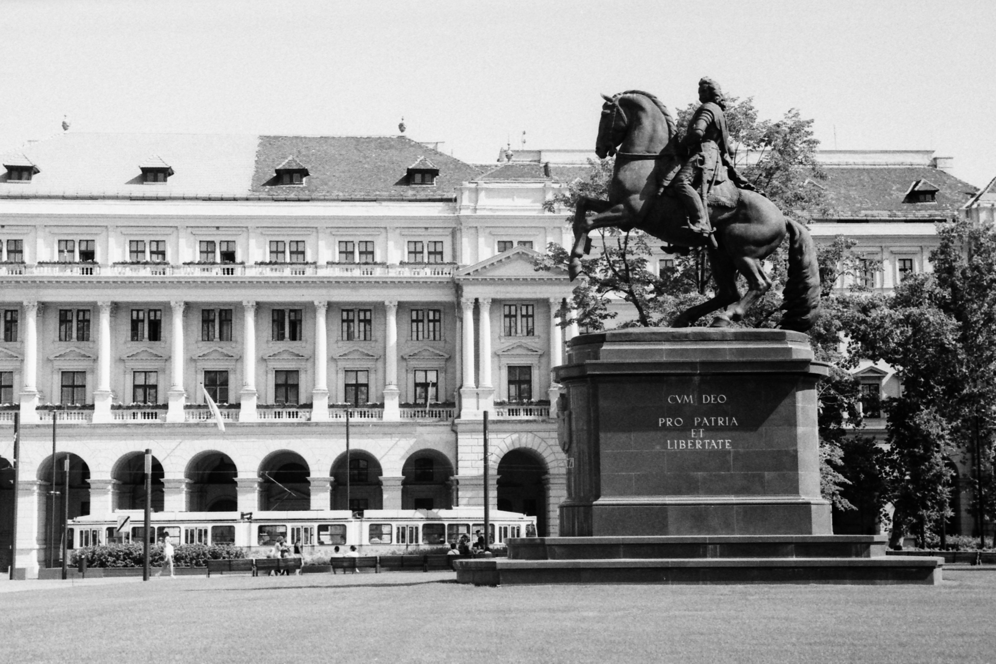 Statue of Francis II Rákóczi in front of the Parliament in Budapest (scan from negative, Kodak Tri-X 400, Leica IIIc, Summitar 5 cm f/2).